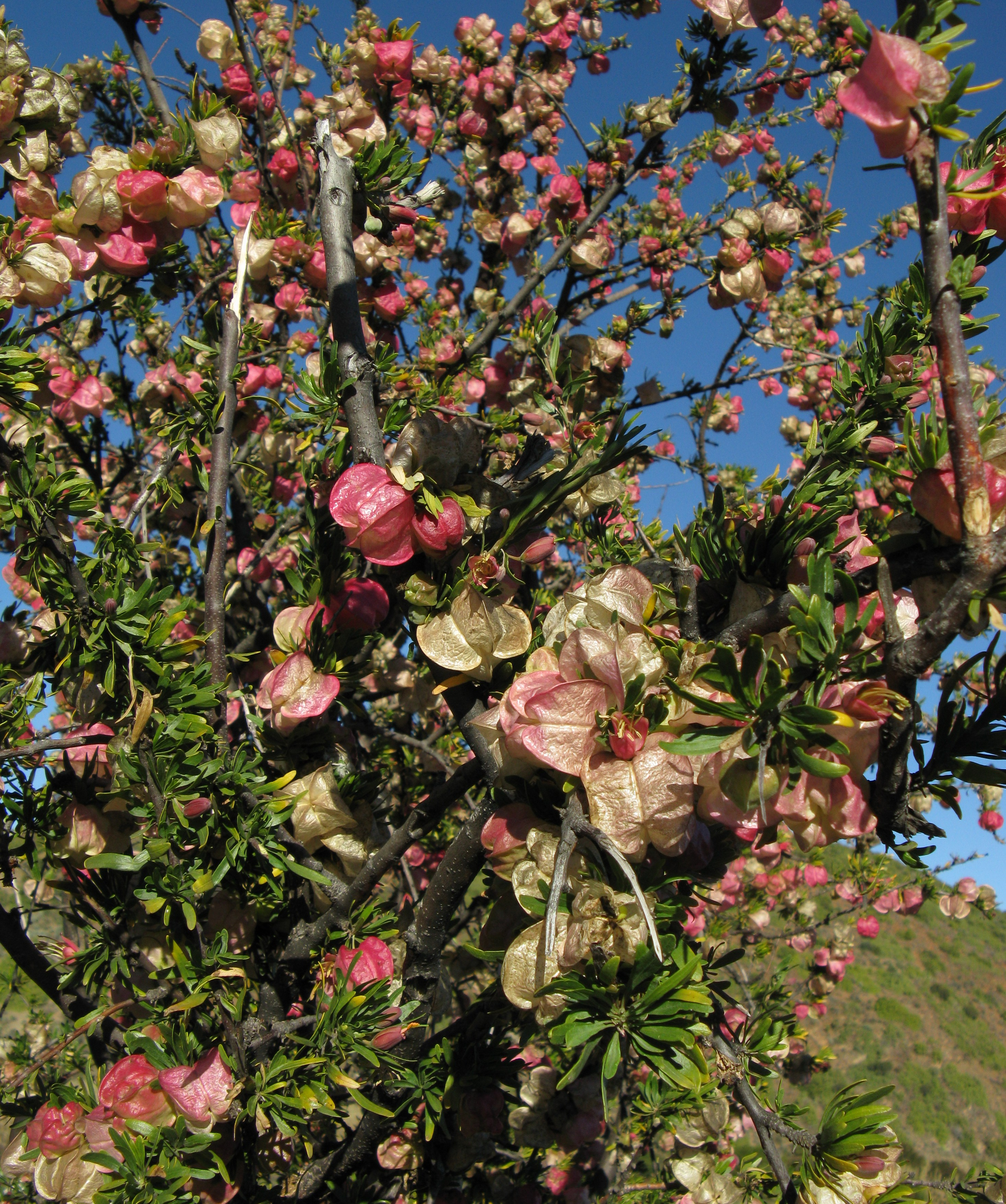 Nymania capensis Good specimen South of Oudtshoorn, South Africa. Ripe and unripe (red) seed capsules